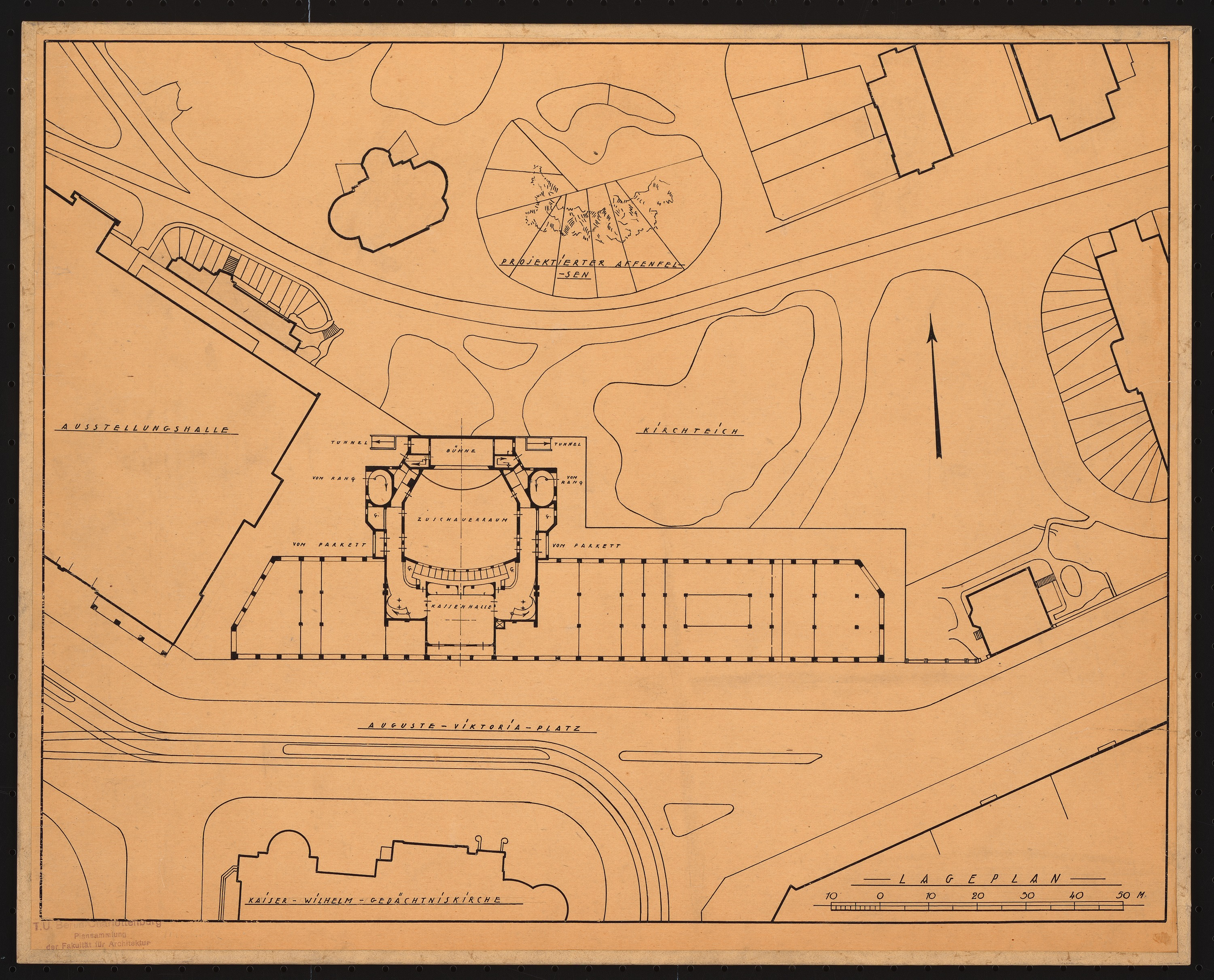 Hans Poelzig (1869-1936) Capitol-Lichtspiele am Zoo, Berlin Inhalt: Lageplan 1:500 (Variante) Projektzeit: 1924-1924 Gattung: Handzeichnung Material/Technik: Tusche auf Transparent Maße: 40,5 x 50,1 cm Ort: Berlin Straße: Breitscheidplatz (historisch: Auguste-Viktoria-Platz) Inventarnummer: 3172 URL